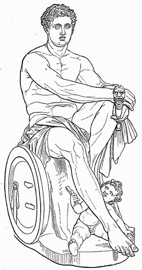 engraving of the so-called Ludovisi Ares. Pentelic marble, Roman copy after a Greek original from ca. 320 BC. Some restorations in Cararra marble by Gianlorenzo Bernini, 1622.